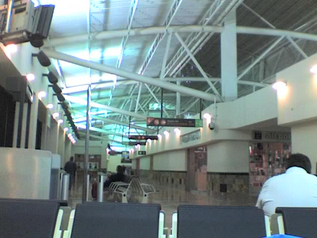 View of TIJ concourse A